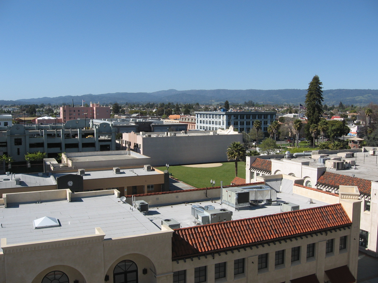 Photograph of Downtown Watsonville, CA, taken from atop the Watsonville Civic Plaza building on Main Street.